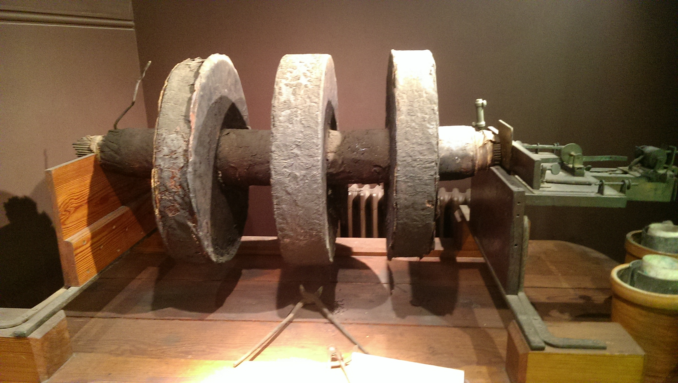 Photo of an early induction coil, built by Irish clergyman Nicholas J. Callan in 1845 at Maynooth College, now at the National Science Museum, Maynooth, Ireland. This was his largest coil, finished just before his death, one of the largest in the world at the time. The iron core is 43 inches (109 cm) long. The secondary windings are 21 inches (53 cm) in diameter and consist of 150,000 feet of 34 gauge iron wire They were made in 3 separate pancake shaped rings separated by air gaps, so wires carrying large voltage differences would not lie adjacent to each other, reducing the risk of insulation breakdown and arcover. He probably intended to add more secondary windings. At the left end is a vibrating mercury 'contact breaker' in the primary circuit, actuated by the magnetic field in the primary, which interrupted the primary current. When powered by 4 'iron cell' battery cells, it could produce 15 inch (38 cm) sparks, corresponding roughly to a potential of 210,000 volts.